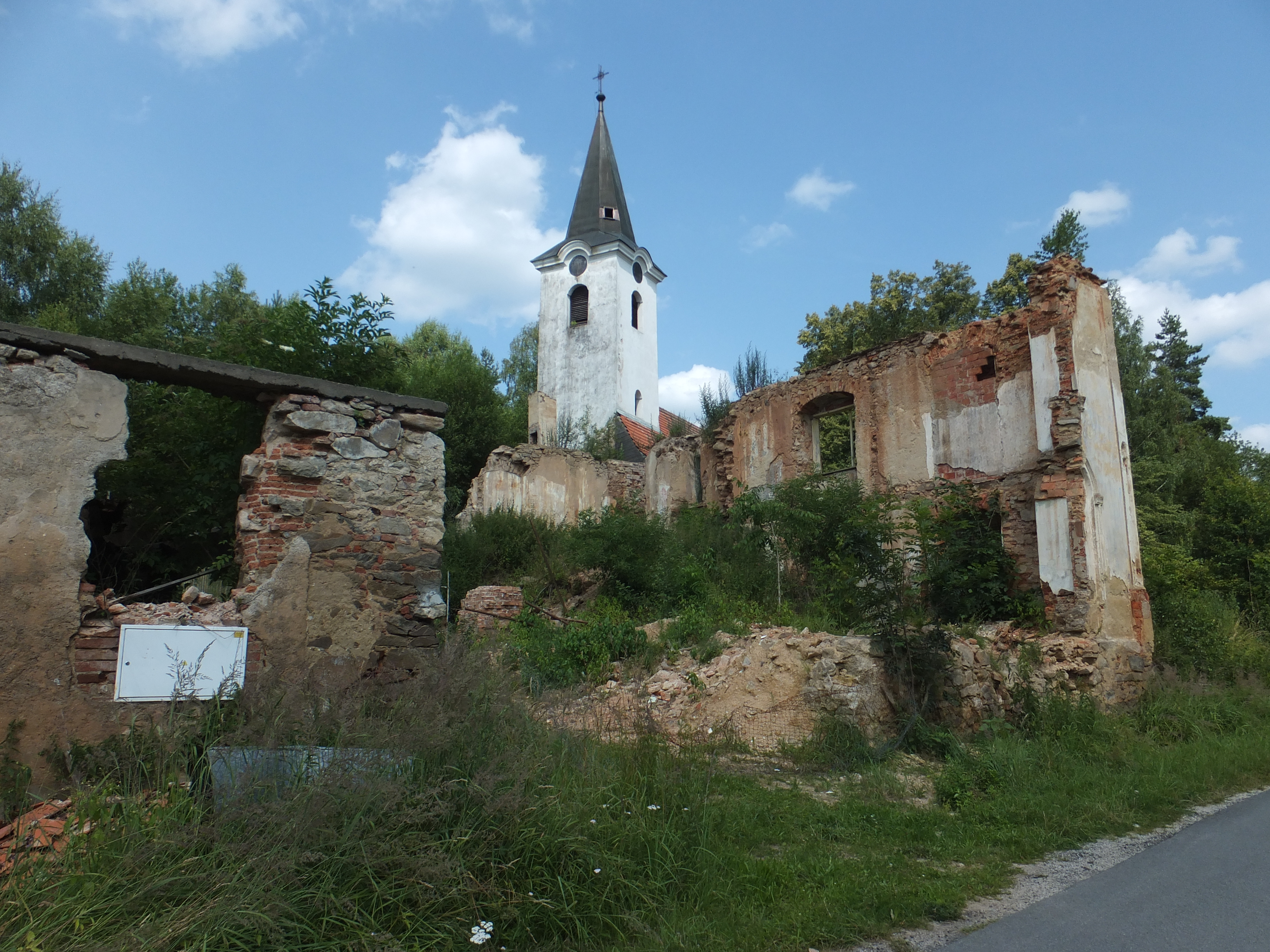 Krabonoš (Germ. Zuggers) - the ruin of the presbytery